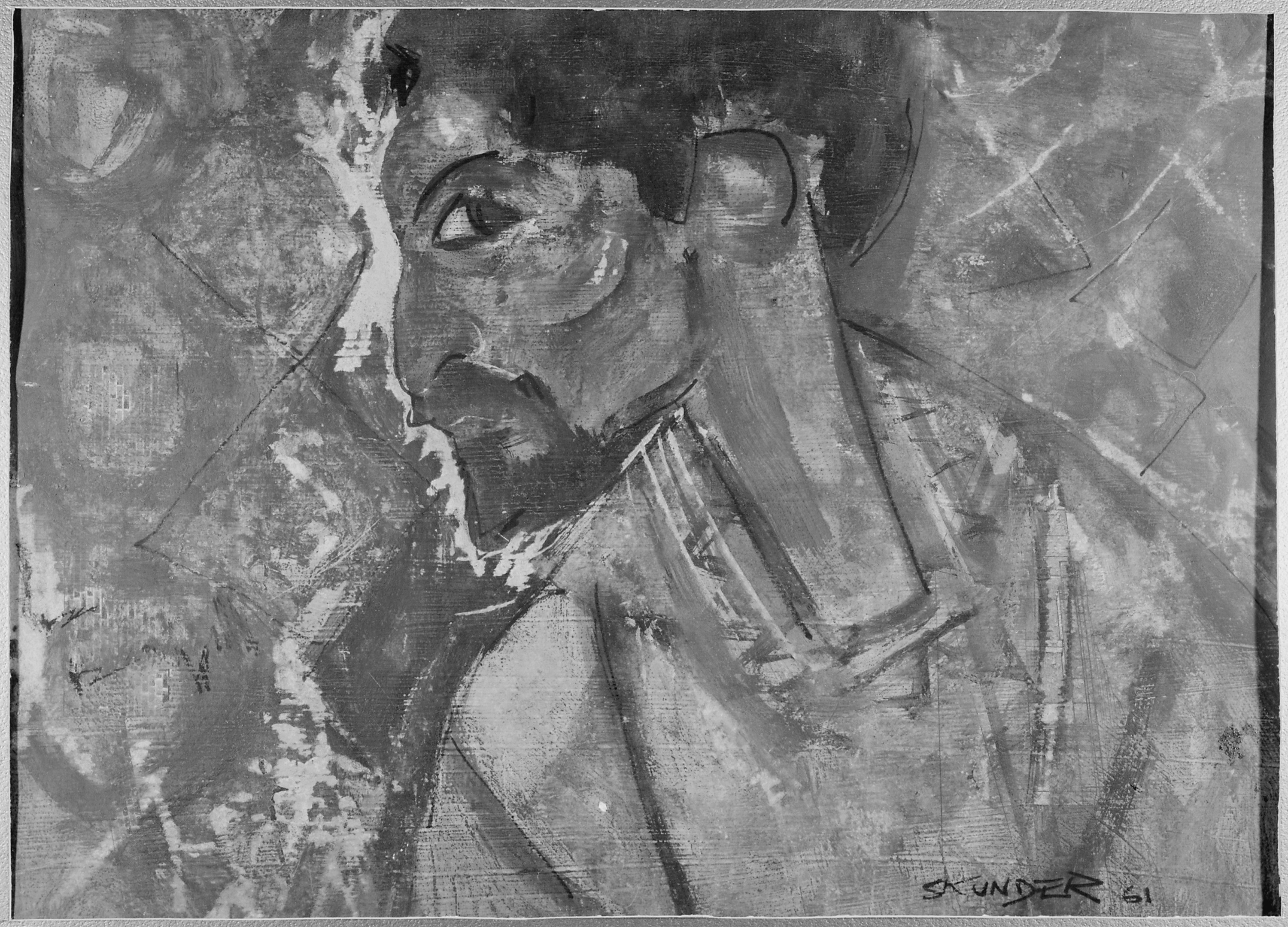 General notes: Watercolor